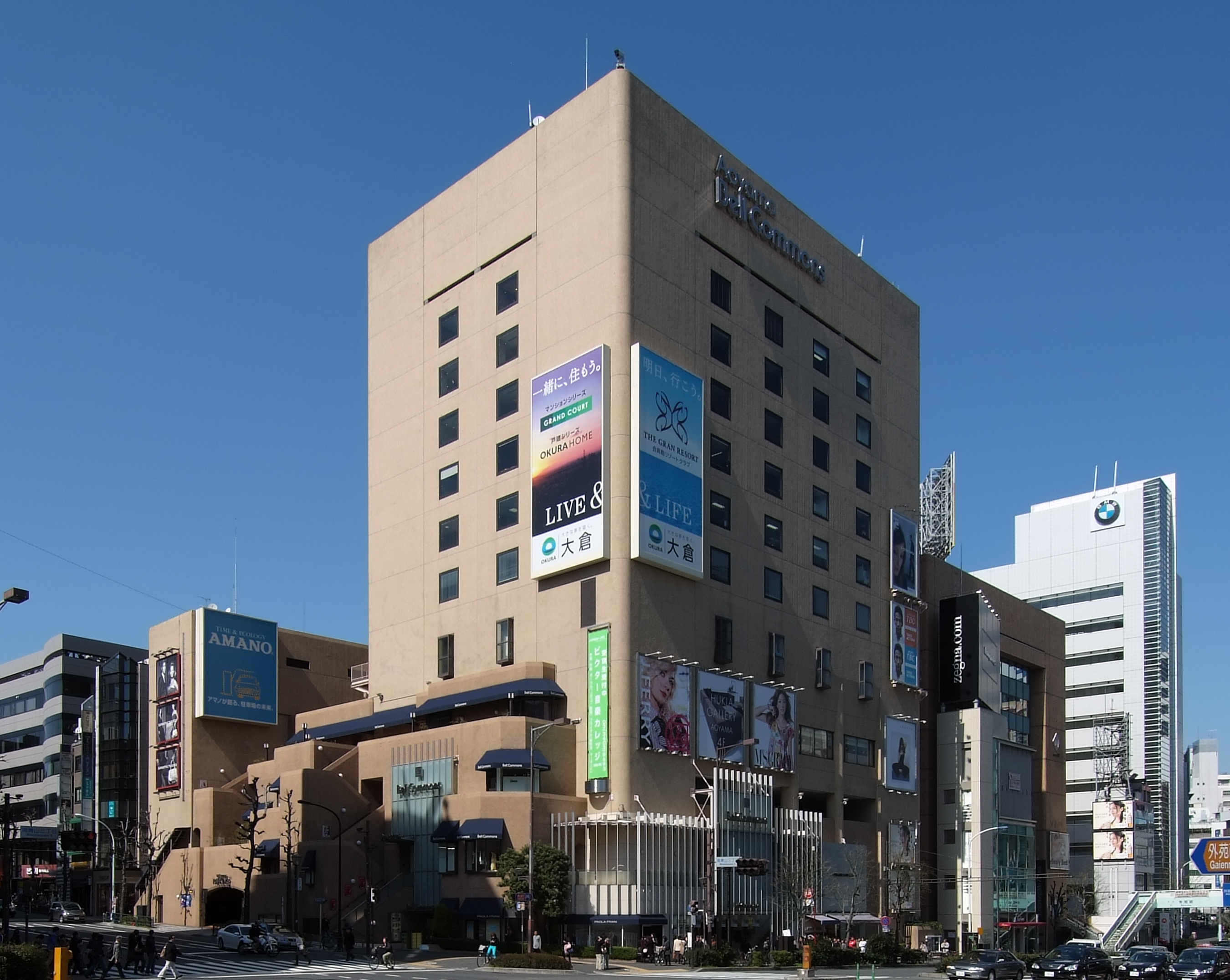 Aoyama Bell Commons, at Minato-ku Tokyo Japan, design by Kisho Kurokawa in 1976.